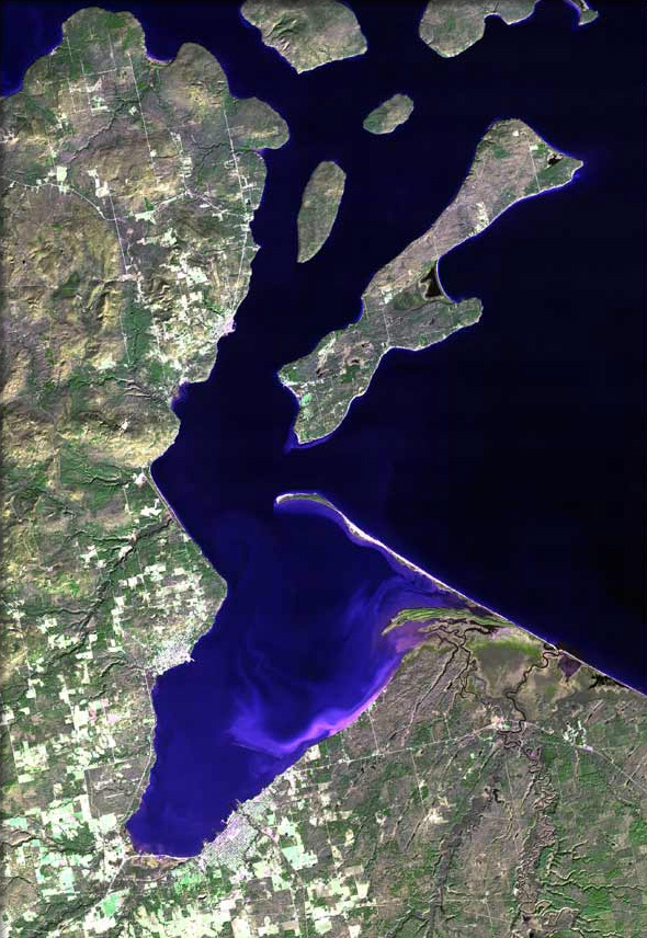 The raw satellite imagery shown in these images was obtain from NASA and/or the US Geological Survey. Post-processing and production by